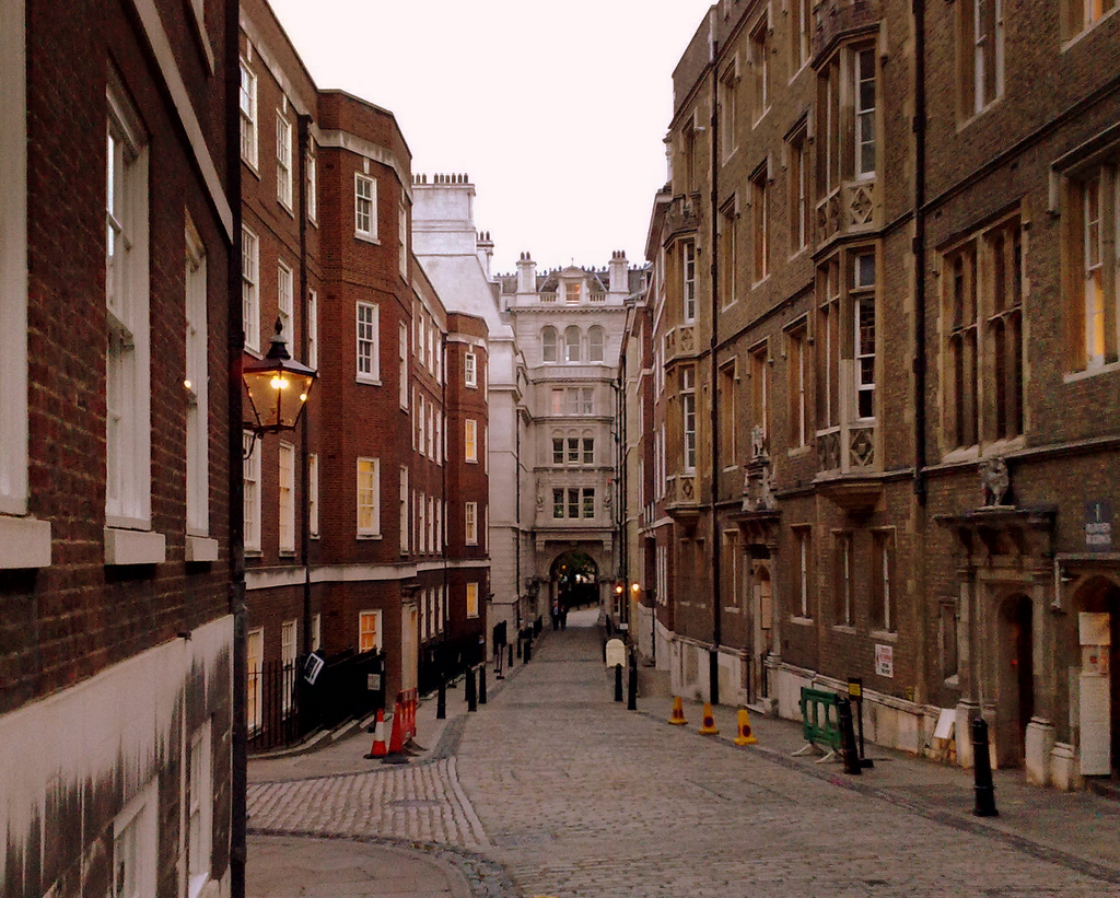 Middle Temple Lane looking towards Victoria Embankment